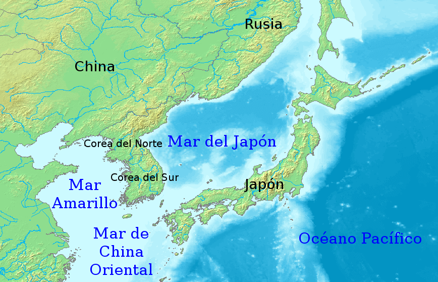 Map of the Sea of Japan in Spanish